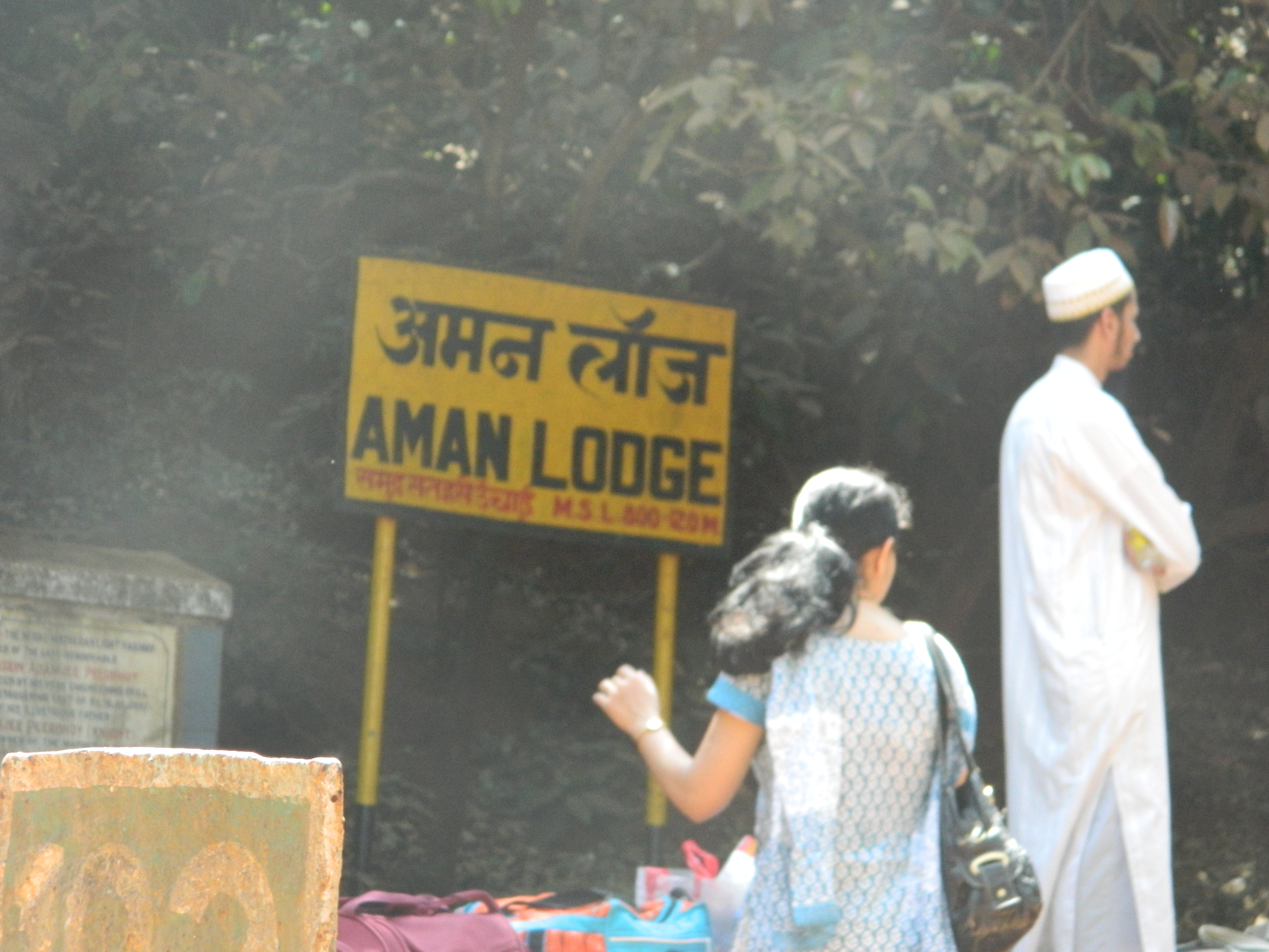 Aman Lodge railway station